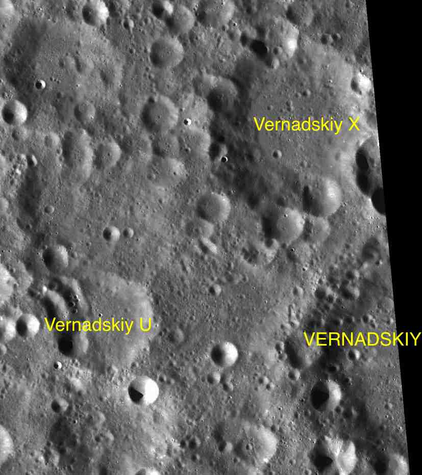 Part of the chart LAC-47 used for the presentation